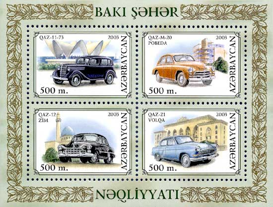 Stamp of Azerbaijan